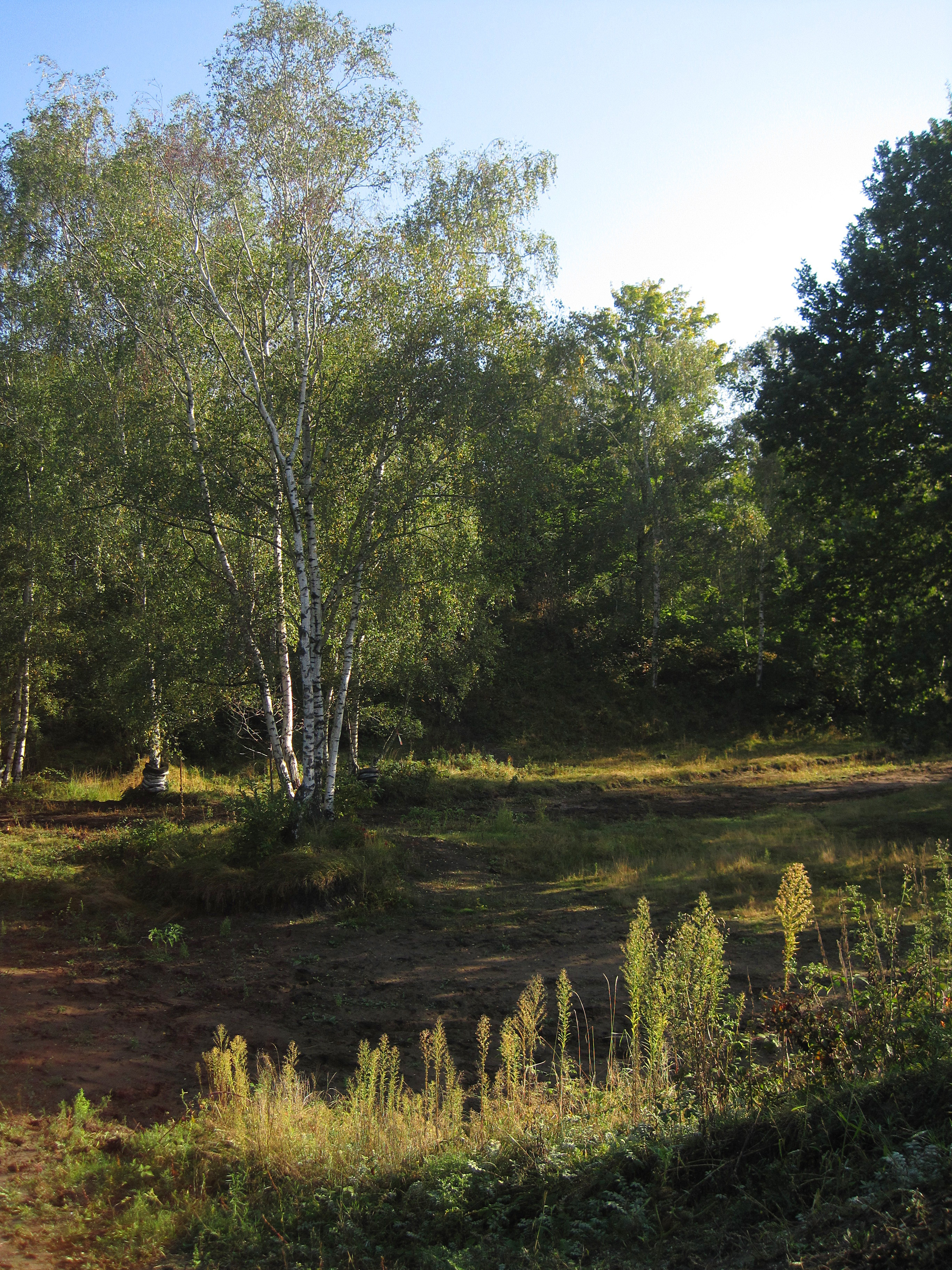 Ghlin (Belgium), the "Bois Brûlé" site.